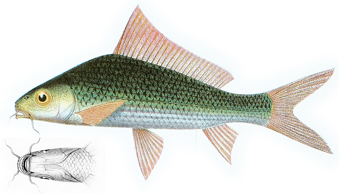 Labiobarbus leptocheilus, identified in the original publication as Dangila Kuhli